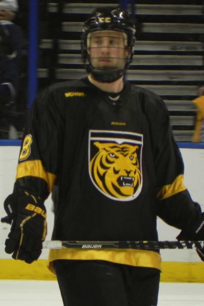 Jaden Schwartz of Colorado College in the 2011 NCAA West Regional Final against Michigan.